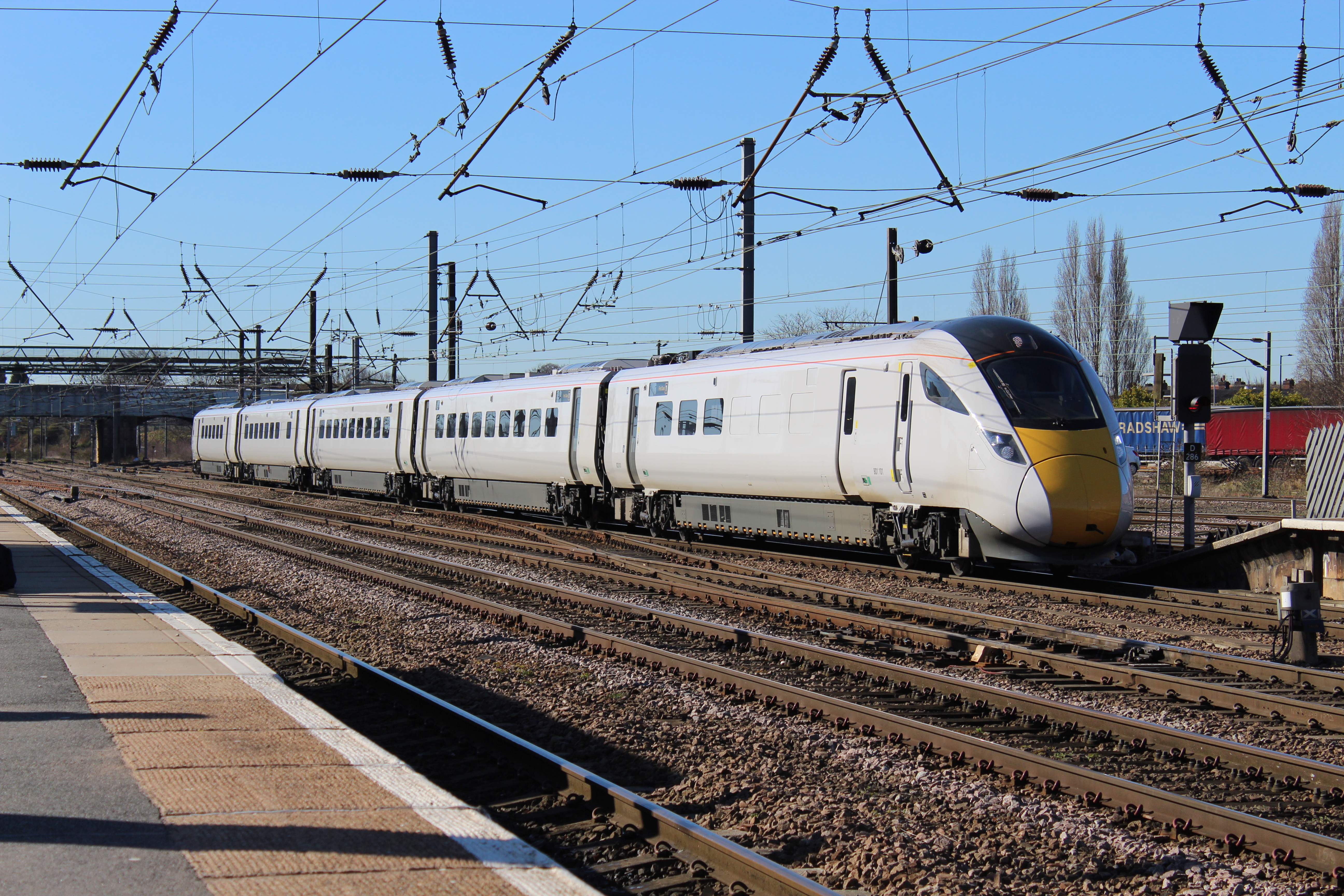 Virgin Trains East Coast 801101 on test passing through Doncaster station on 5 April 2018. With the collapse of the InterCity East Coast rail franchise (again), this and other Class 801 units will now enter service with London North Eastern Railway in December 2018.